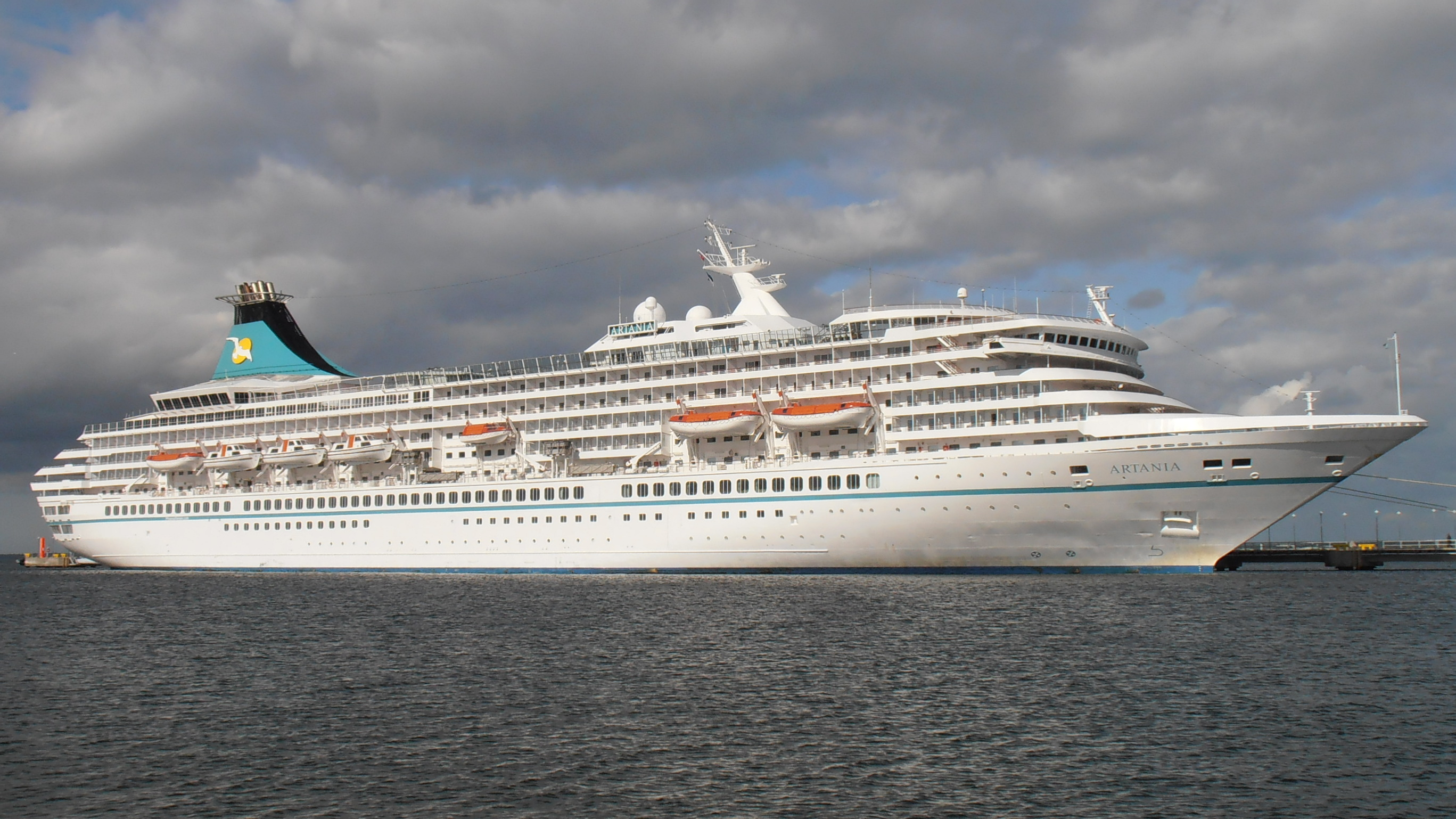 Artania in Port of Tallinn 18 May 2012